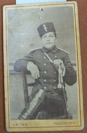 Ganyo Atanasov